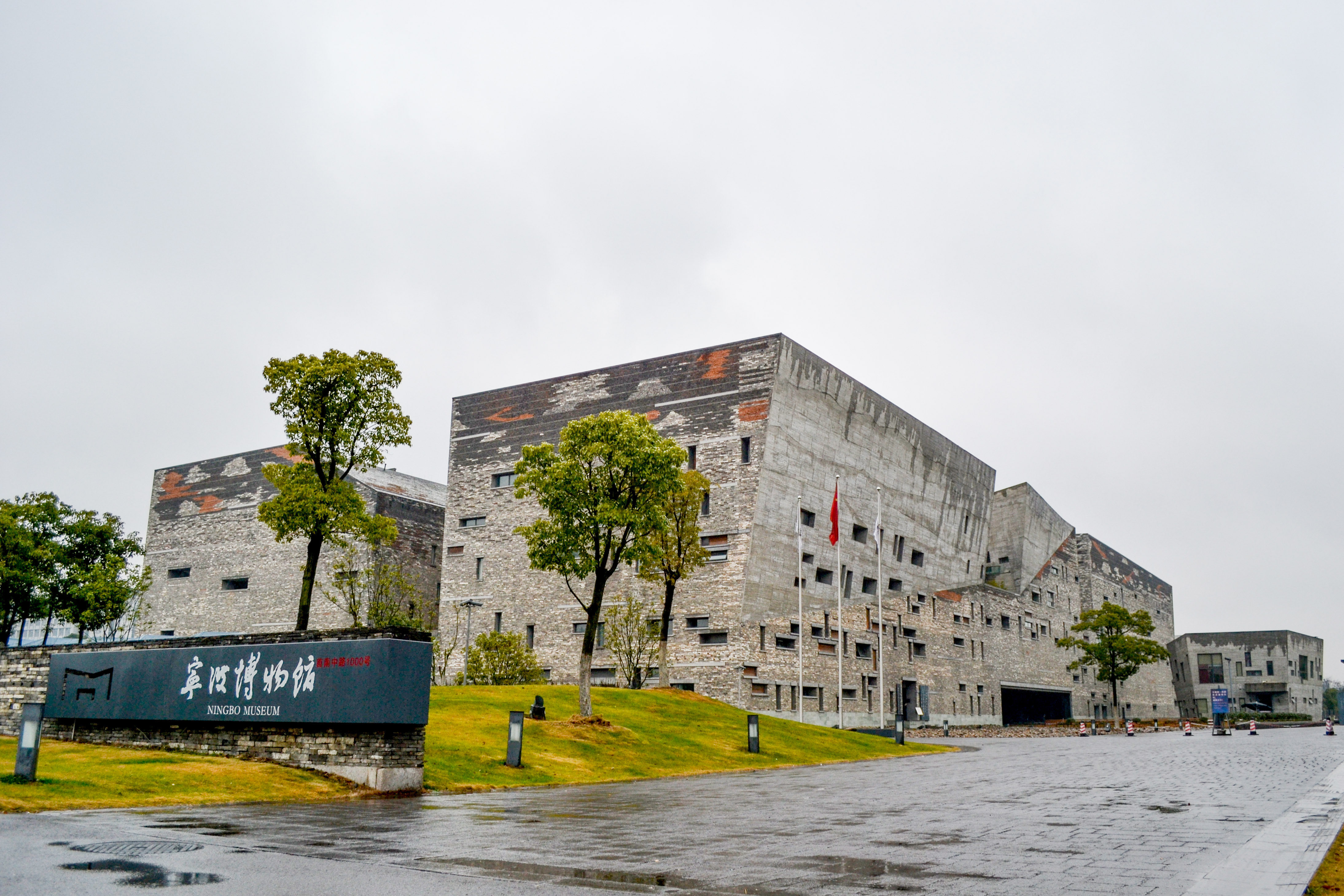 South gate of Ningbo Museum, designed by Wang Shu.